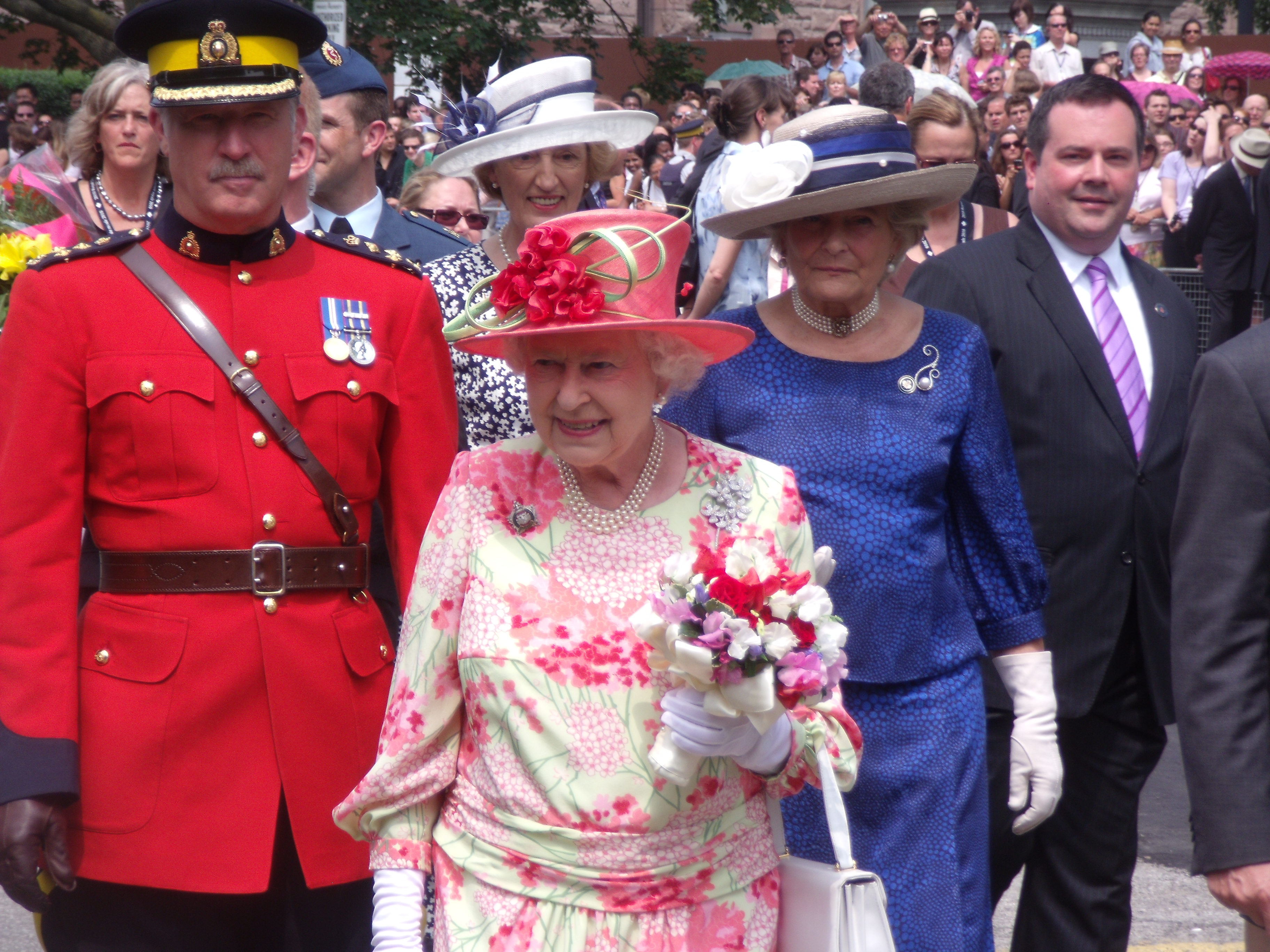 Queen Elizabeth II at Queen's Park